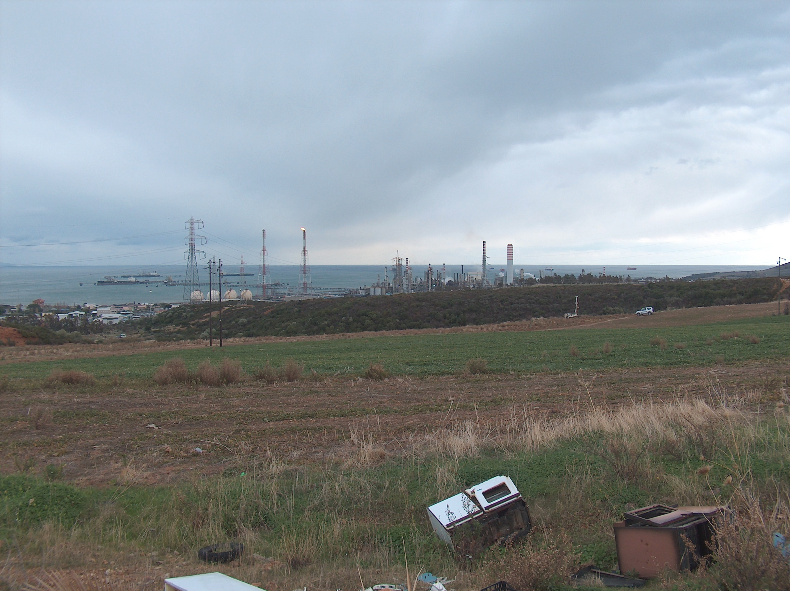 View of the SARAS oil refinery, near Sarroch (Sardinia, Italy)